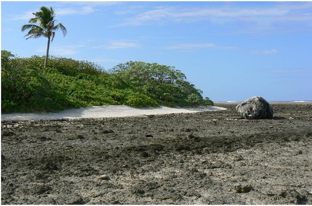 Photograph of the fringing reef in Wallis island (Polynesia, South Pacific), next to one of the islets of the lagoon. Removed the text in the upper-right corner